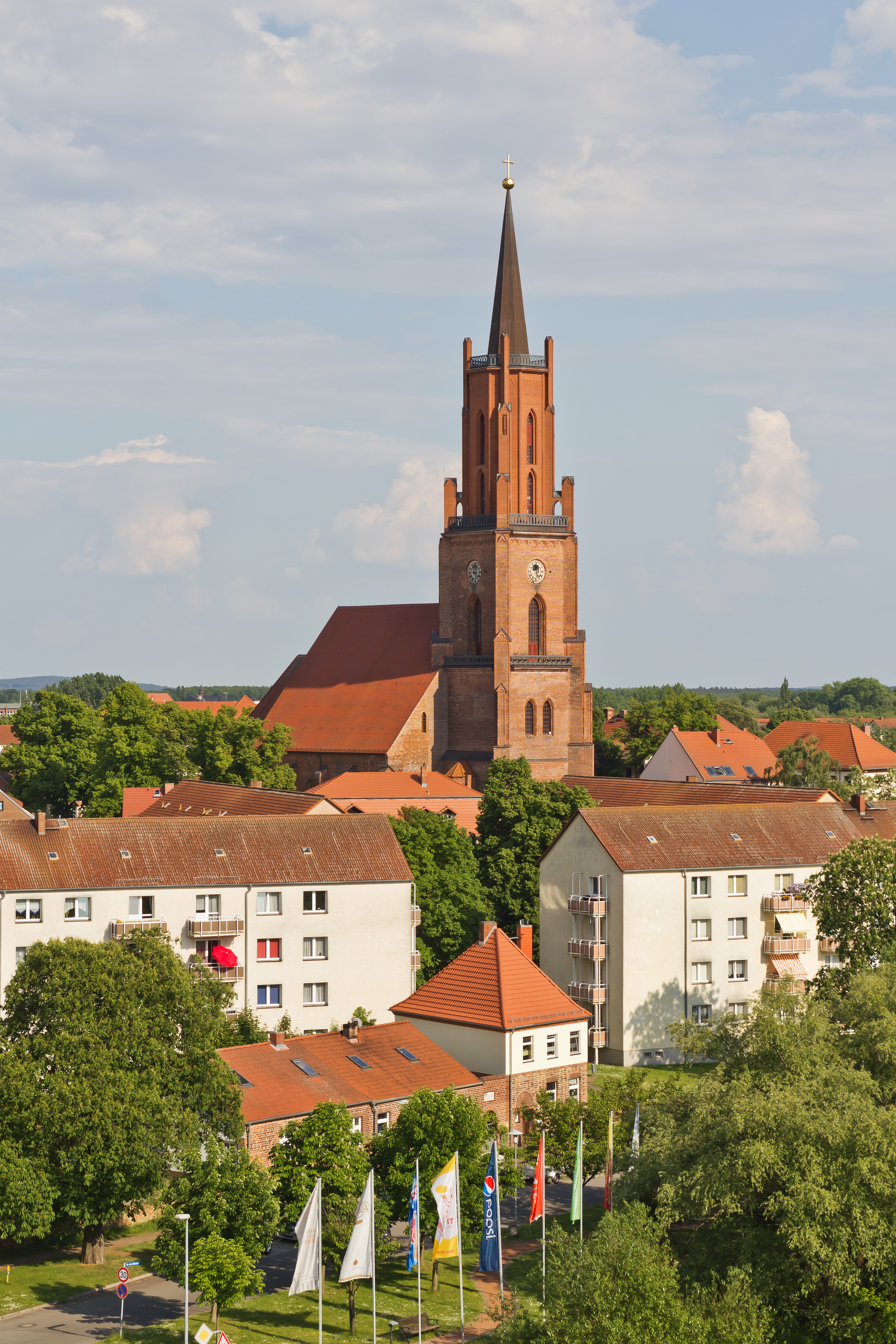 Rathenow, Brandenburg, Germany: view from the balcony of the former warehouse